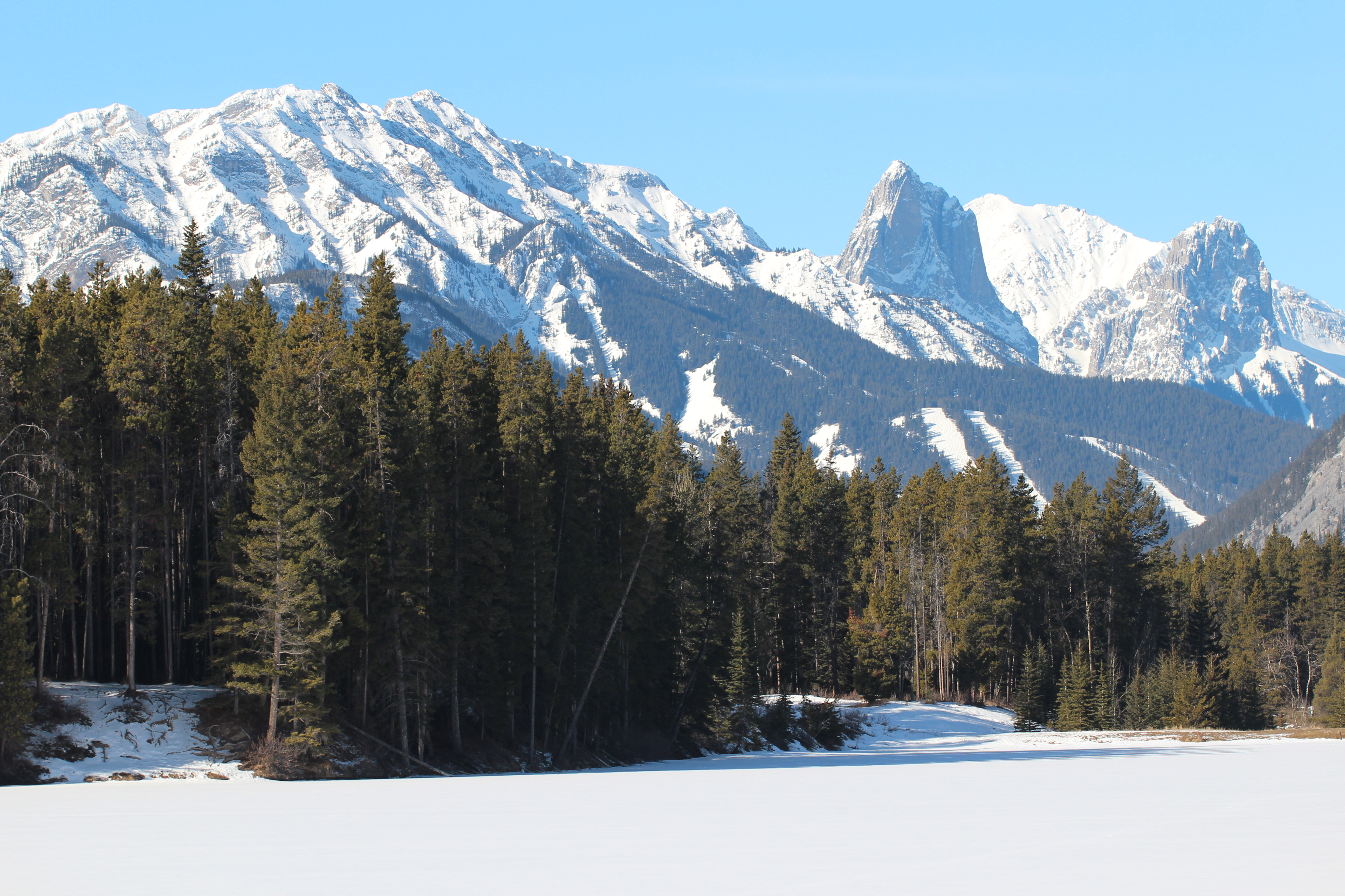 Playing with lenses always adds a little something to the shot.